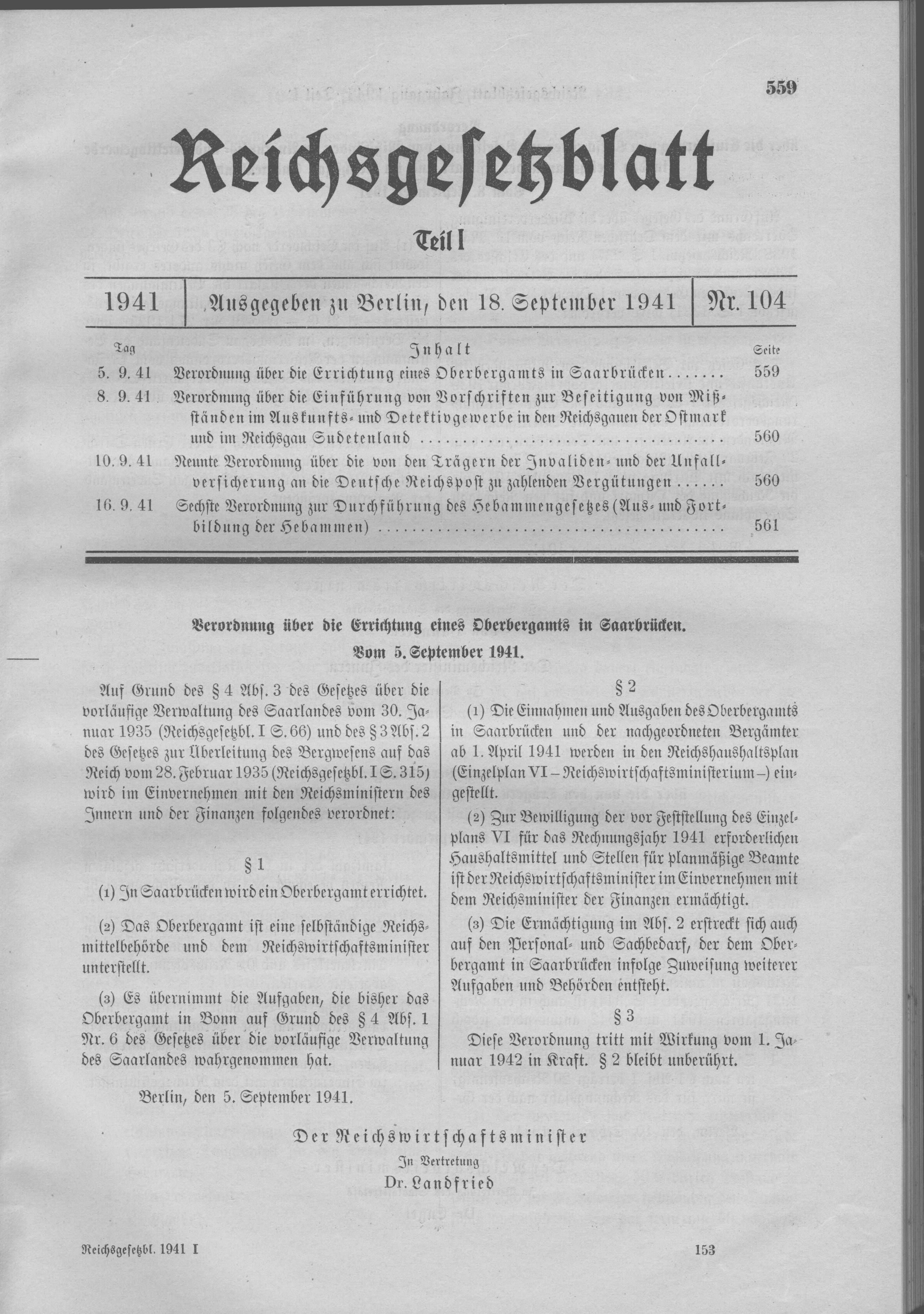 Scan from the Imperial Law Gazette of Germany, 1941, part 1